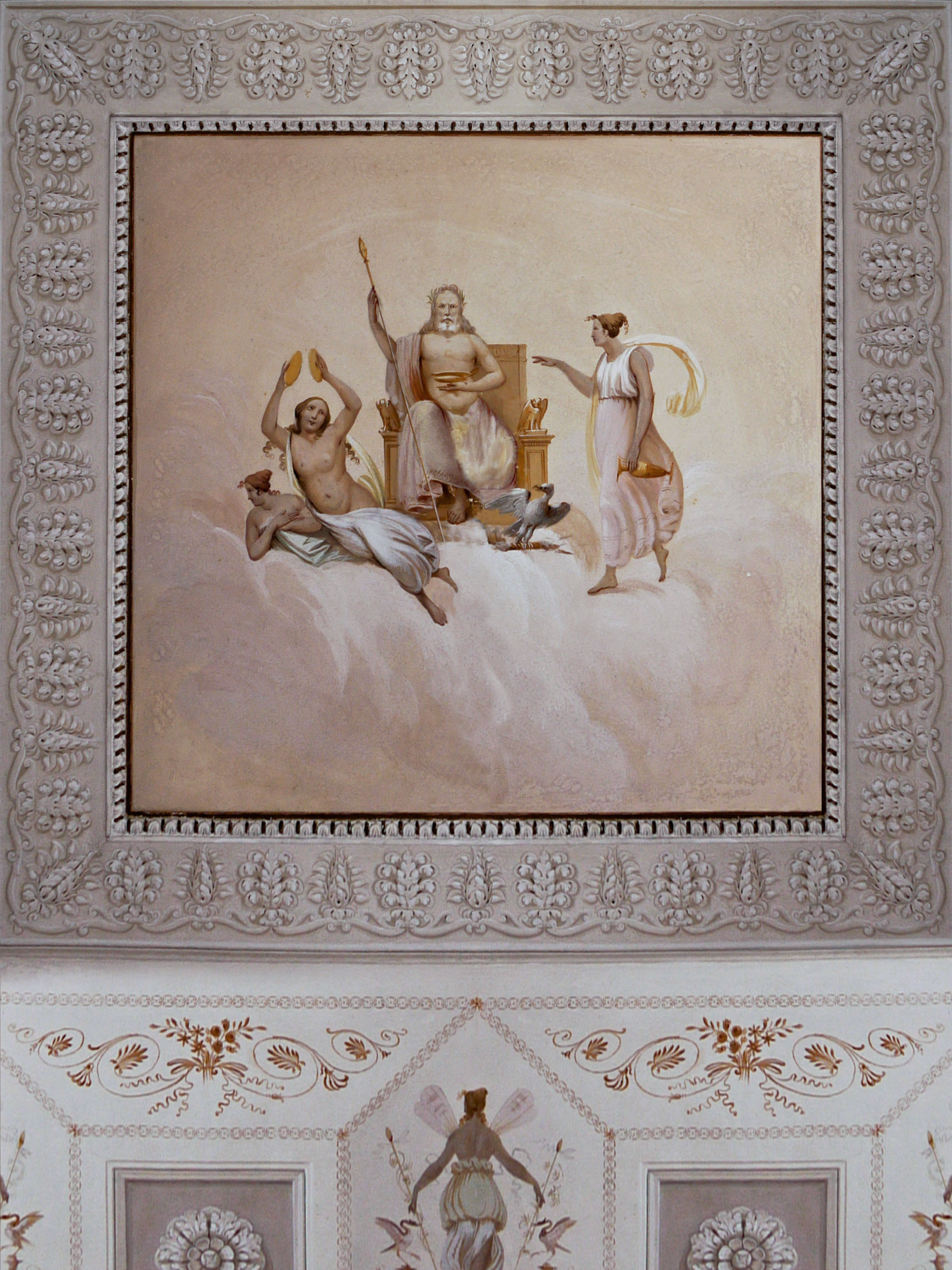 Villa Folco, Meolo. Affresco del piano nobile (part.)